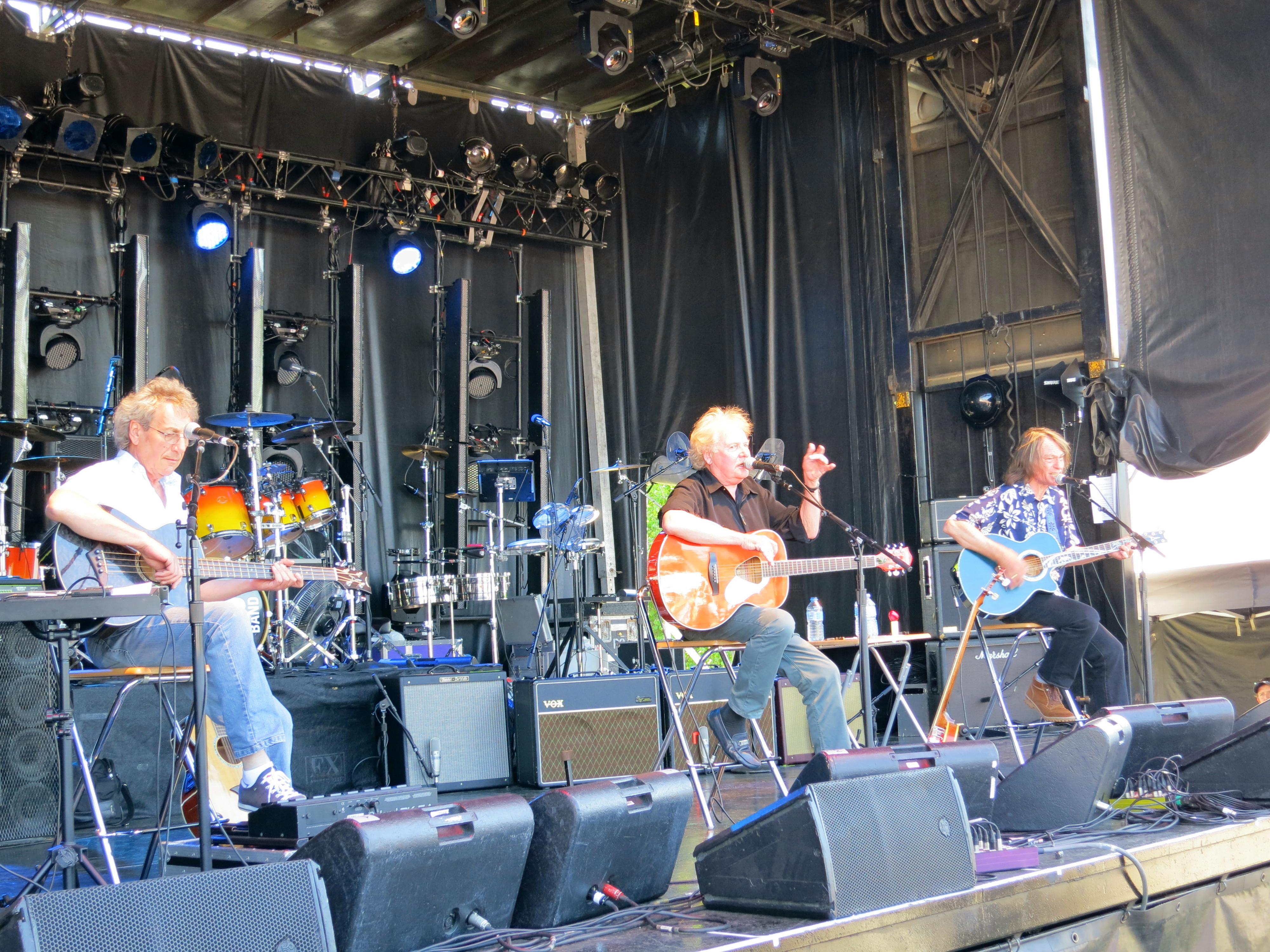 The Strawbs